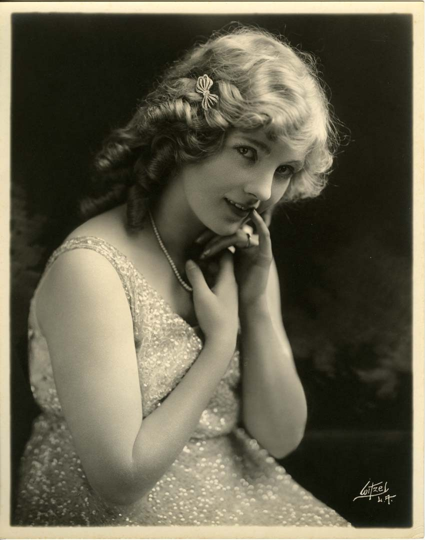 Portrait of American actress Mary Miles Minter (1902-1984) by American photographer Albert Wilztel (1879-1929).